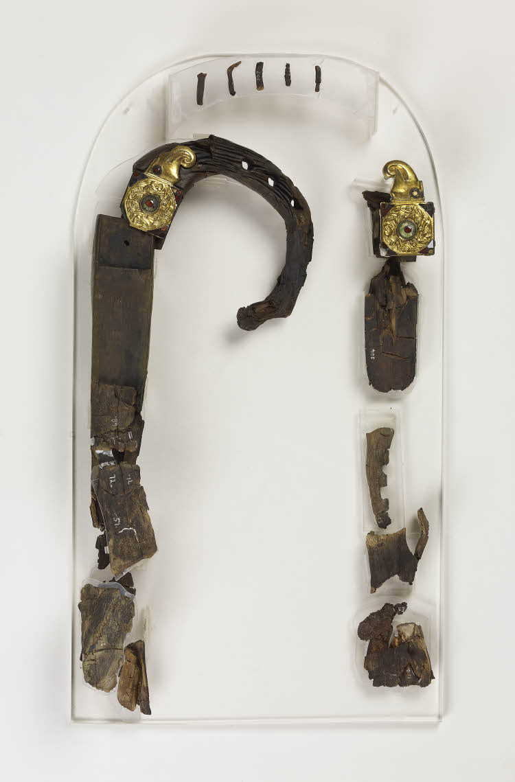 Sutton Hoo Lyre